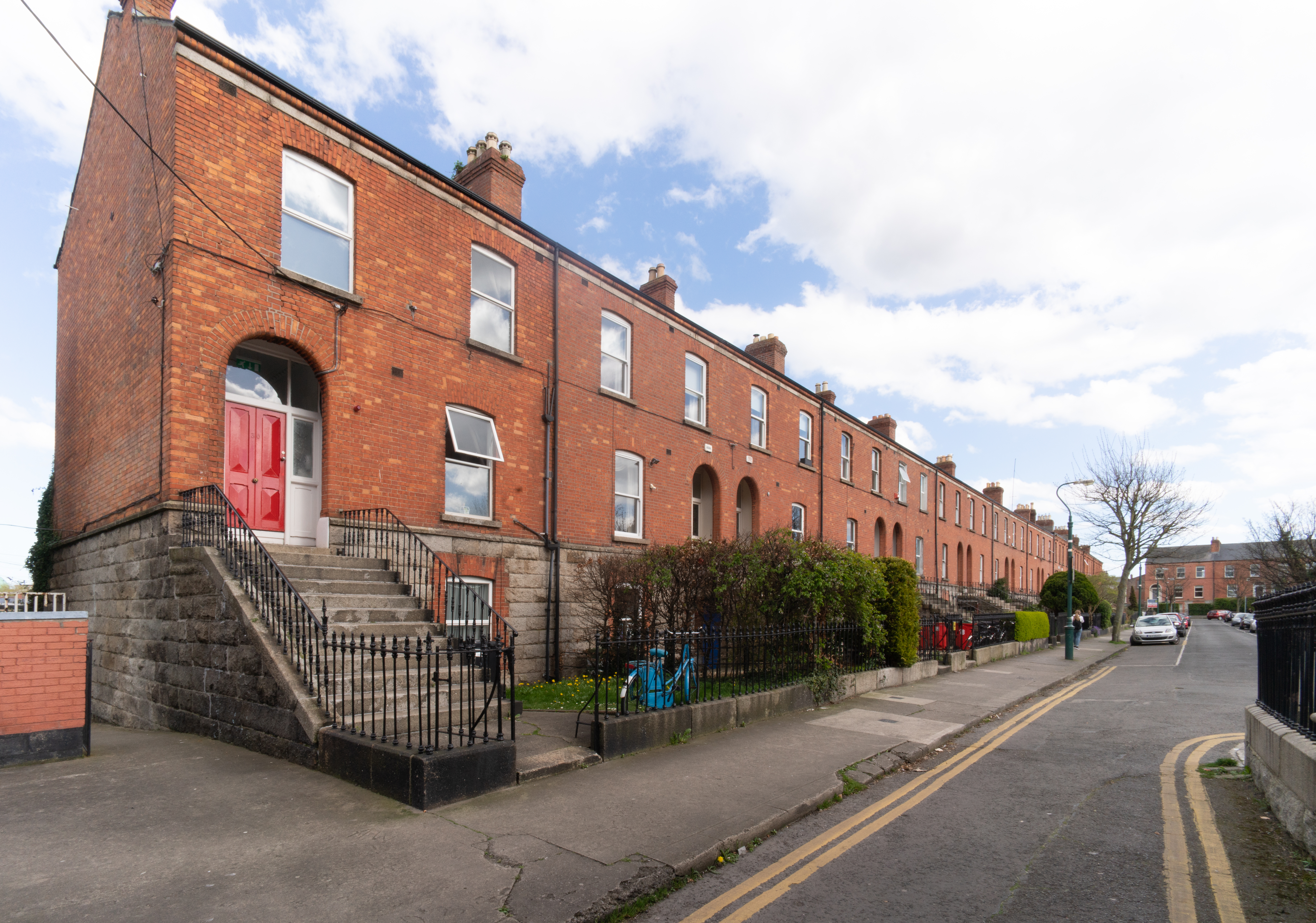 Grosvenor Square, Rathmines, Dublin in April 2018